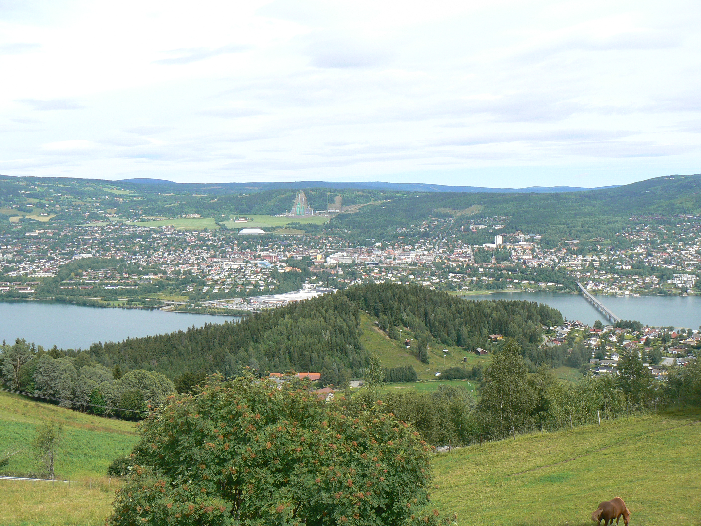 View over Lillehammer town, Norway, from across the valley.